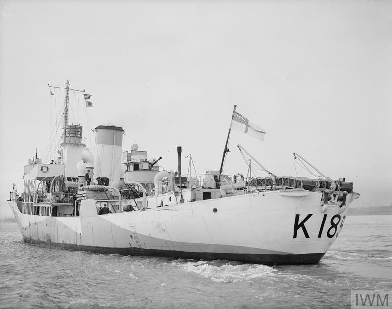 HMS ALISMA, BRITISH FLOWER CLASS CORVETTE. 22 APRIL 1942, LIVERPOOL.